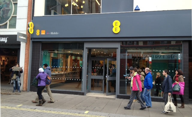 EE Retail Store